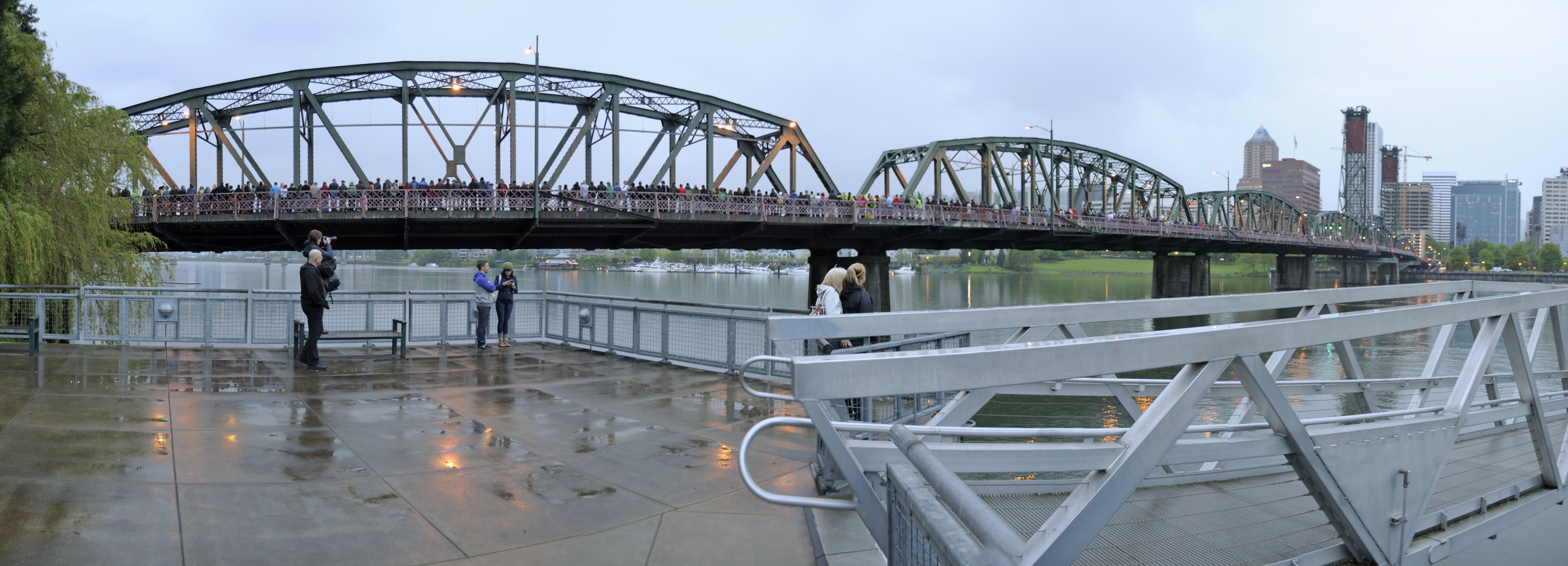 A panorama of the Hawthorne Bridge during the Hands Across Hawthorne rally in Portland, Oregon